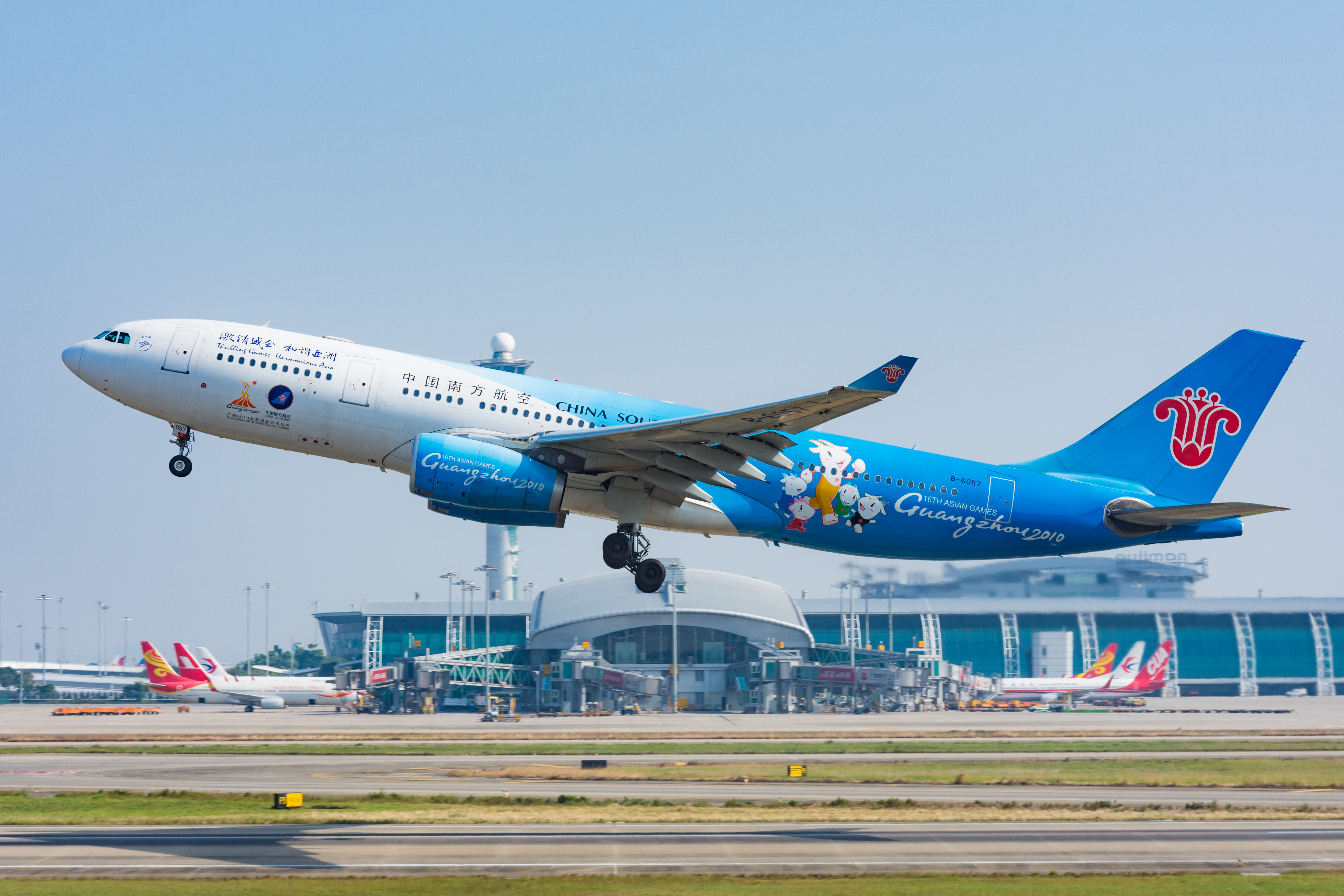 The Airbus A330-243 (B-6057) took off as Flight CZ3413 from Guangzhou to Chengdu in the afternoon on December 9, 2017, being the second last flight with the Guangzhou 2010 Asian Games special livery. The aircraft flew back to Guangzhou the same night for annual maintenance and was restored to standard livery afterwards.